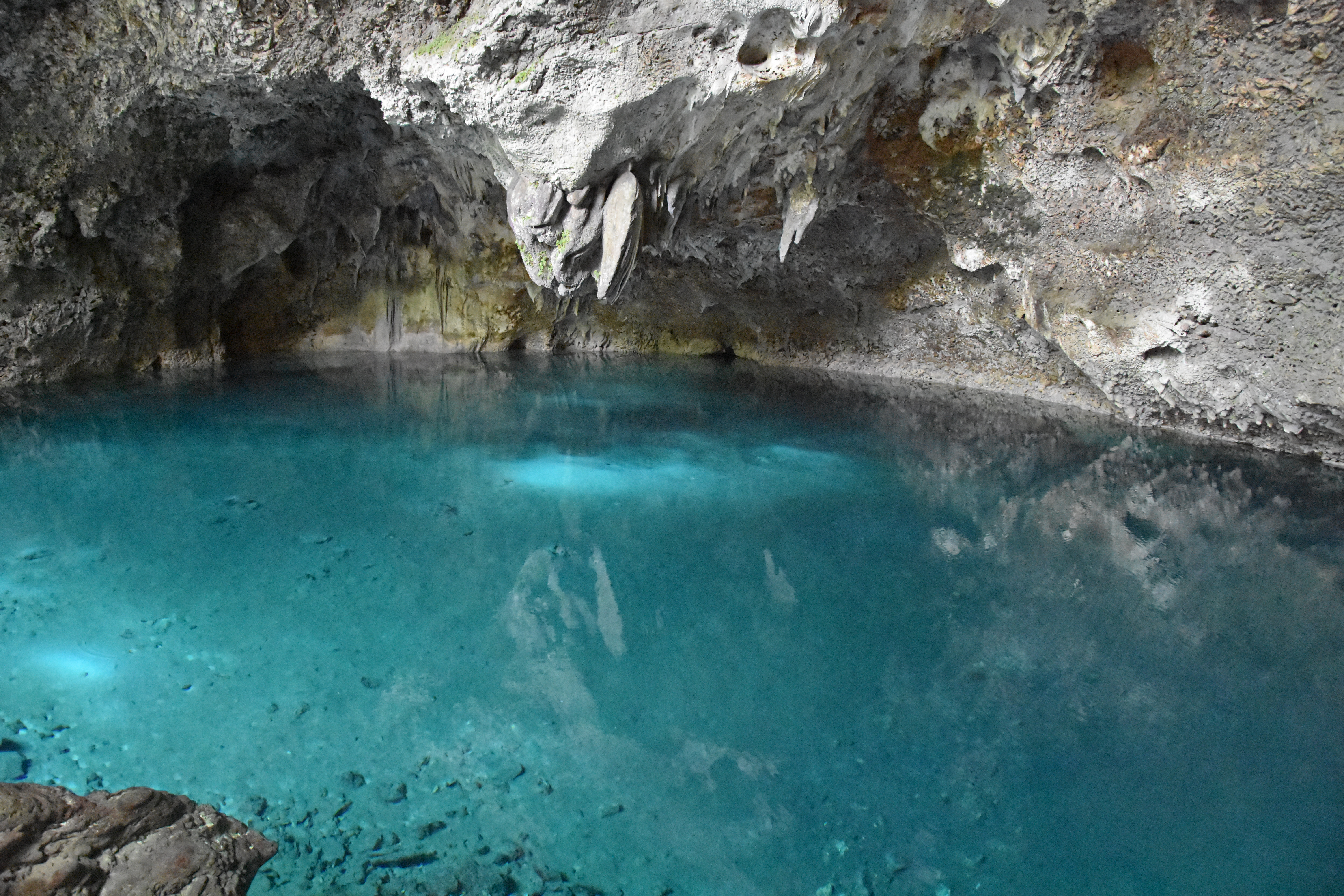 Los Tres Ojos national park in Santo Domingo Este, Dominican Republic.